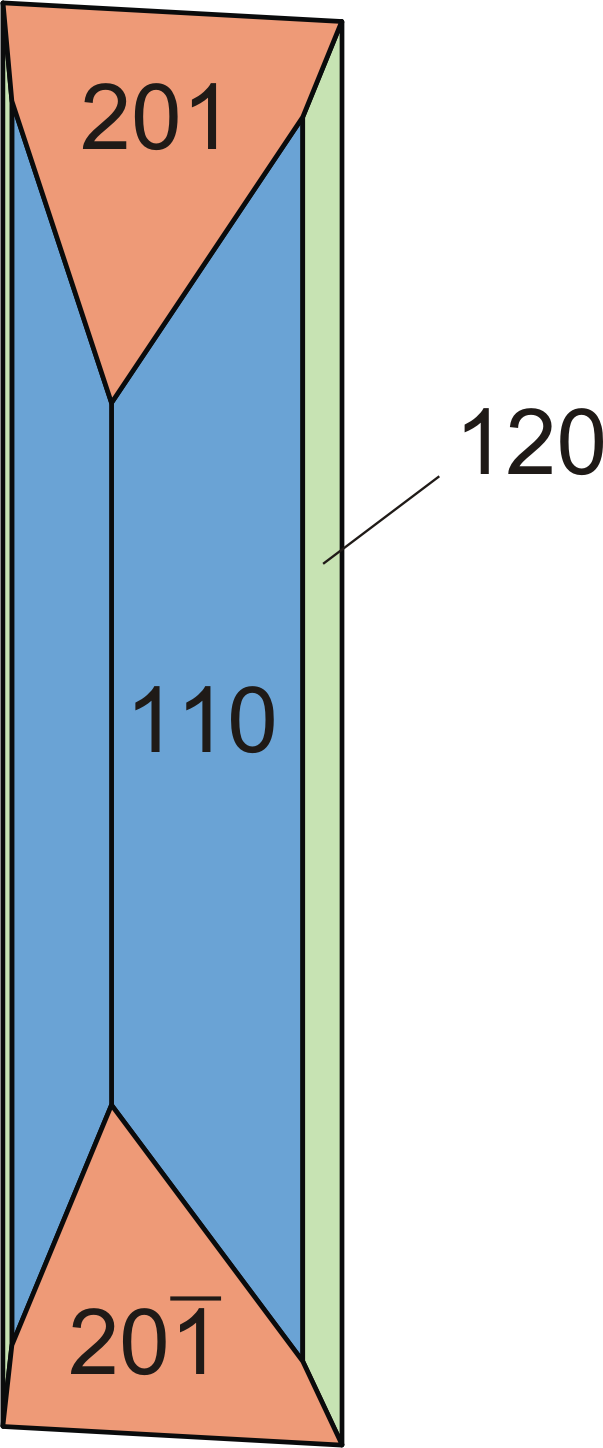 Drawing of a Paracelsian crystal; reference: L. J. Spencer (1942), Mineralogical Magazine 26, page 232